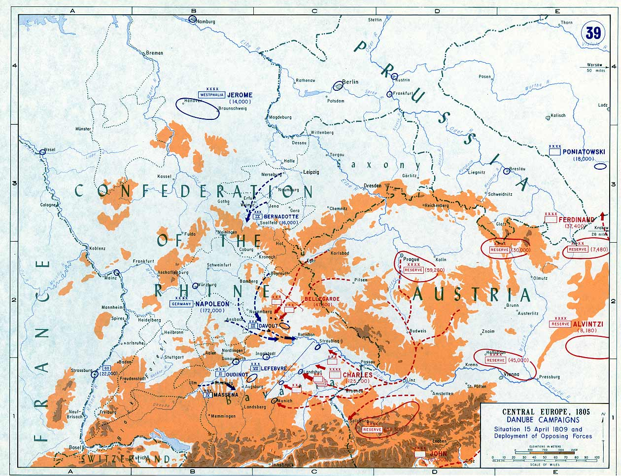 Map of the situation at the Battle of Eckmühl as of April 15, 1809